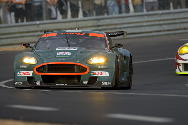 Tomas Enge - 24 Hours Du Mans 2005